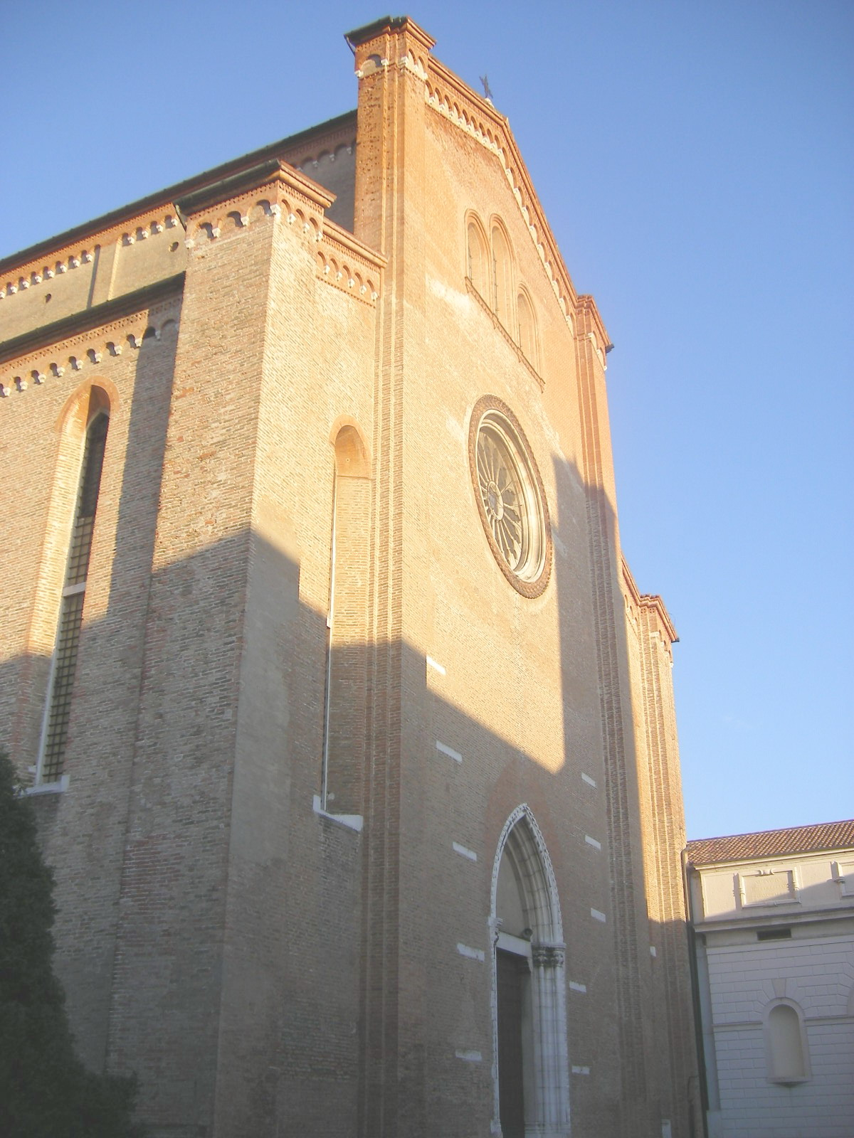 Treviso